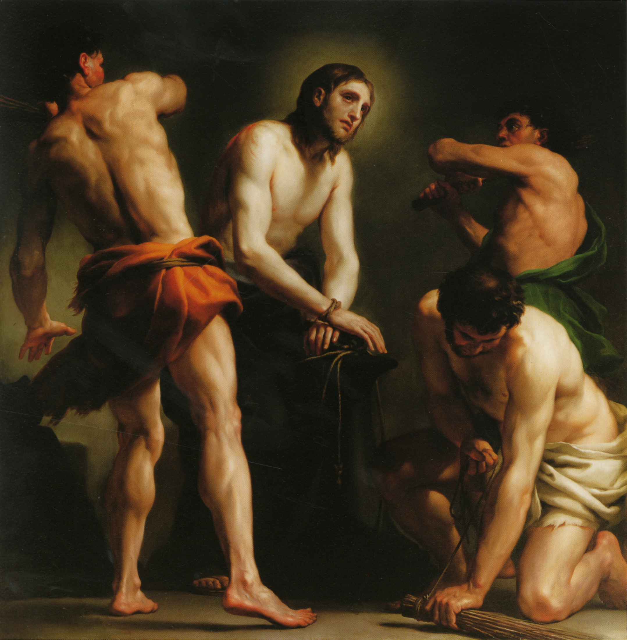 The Flagellation of Christ by Anton Raphael Mengs, originally one of four in a cycle on the Passion of Christ as supraportas for the bedroom of King Carlos III, now in the Palacio Real, Madrid.